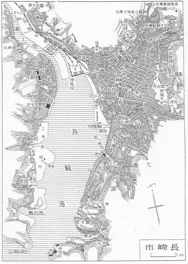 Nagasaki map circa 1930